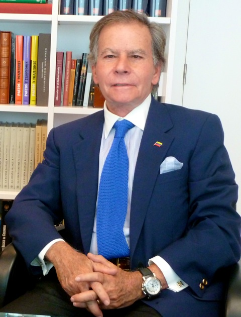 Photo of Diego Arria, Venezuelan politician and diplomat.